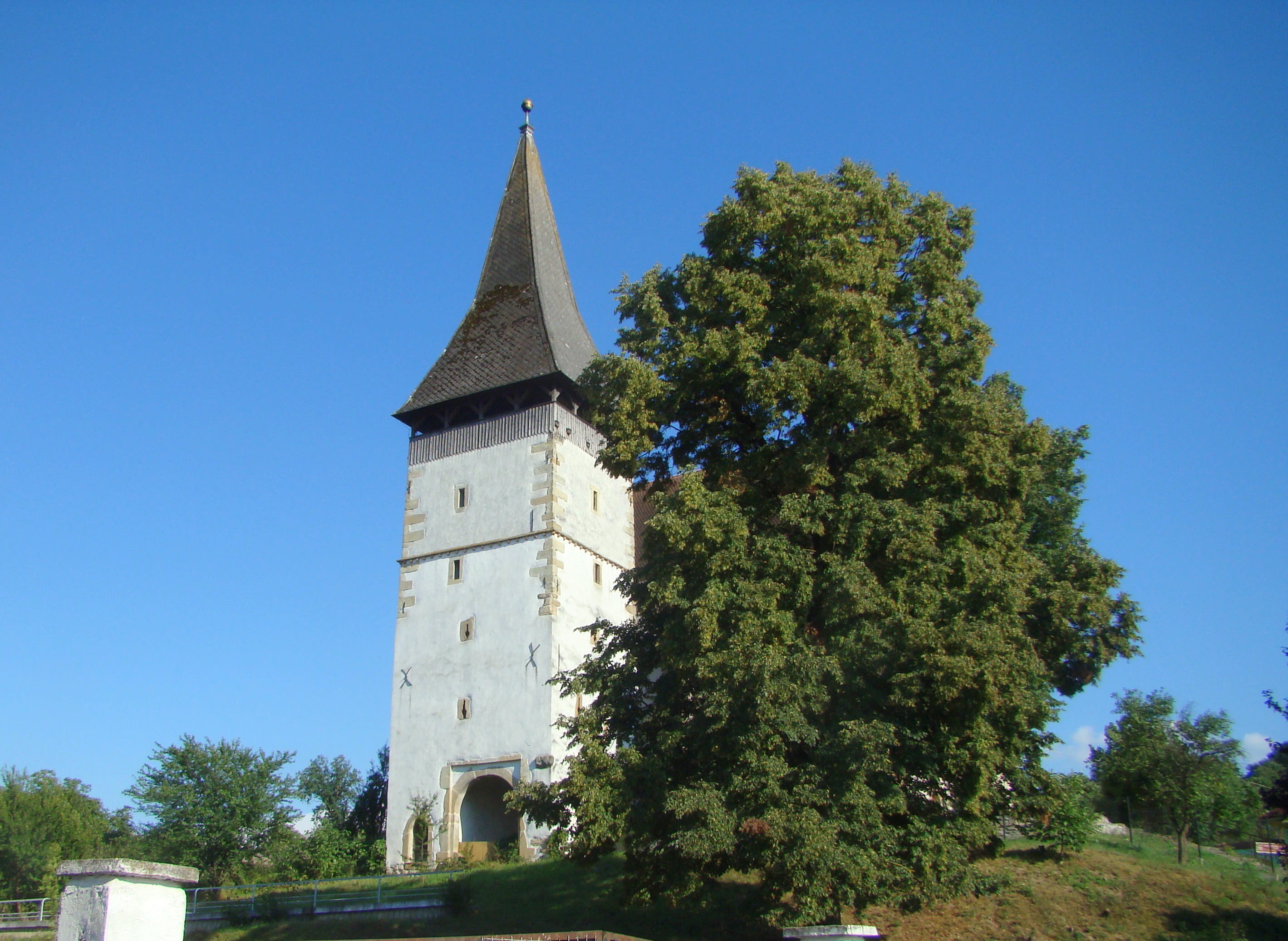 Lutheran church in Tărpiu, Bistrița-Năsăud county, Romania